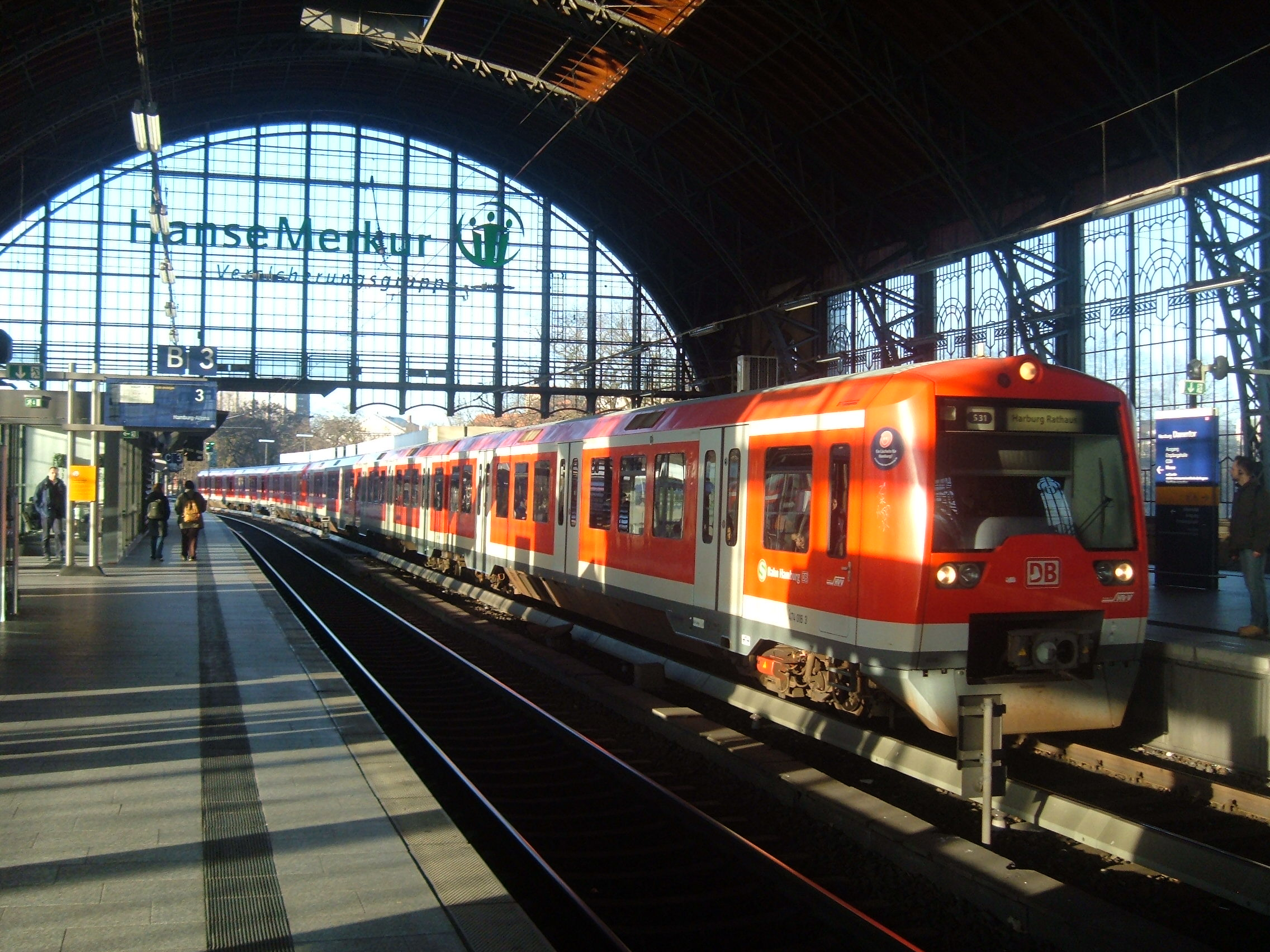 Train of Hamburg S-Bahn arriving at Dammtor Station.